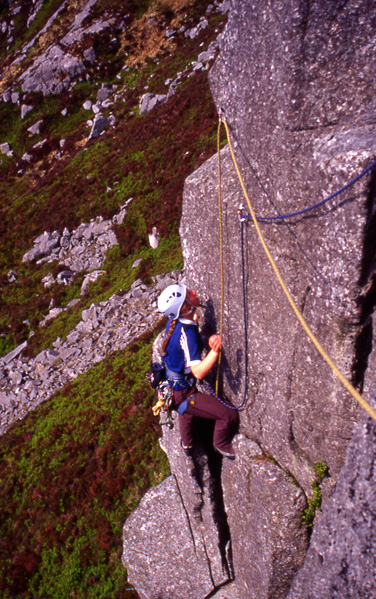 Rocky mountains tend to be hazardous. Rock climbing on Craignelder.